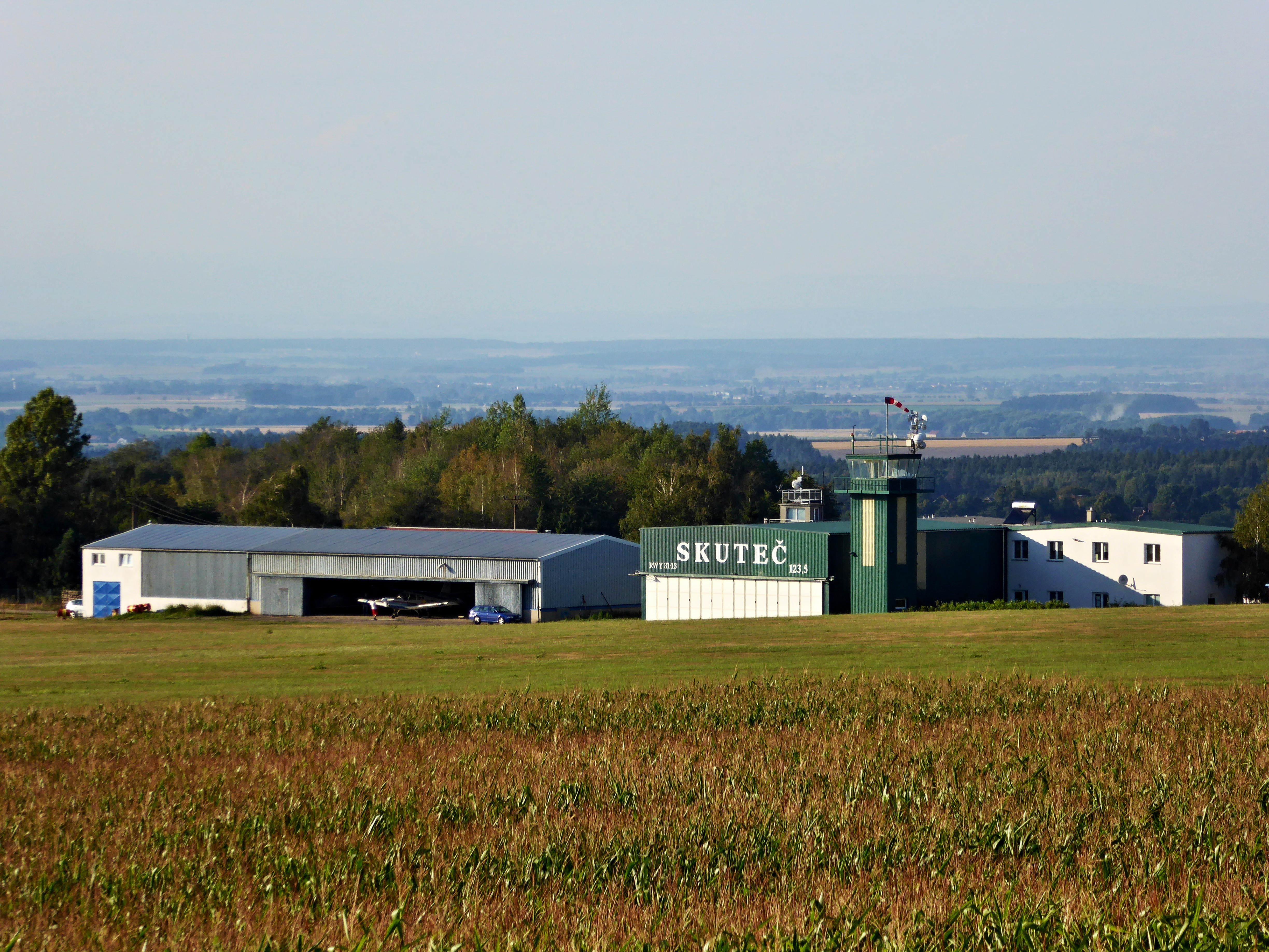 Skuteč, public domestic airport with a grassy airfield. Photo location - Czechia, town Skuteč, airport, elevation point Remondštangle (492,47 m. above sea).